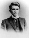 W.N.P. Barbellion (1889-1919)